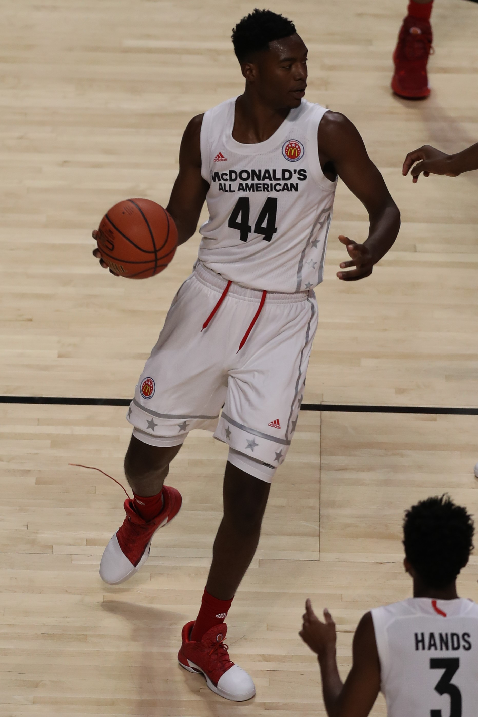 Brandon McCoy at the w:2017 McDonald's All-American Boys Game